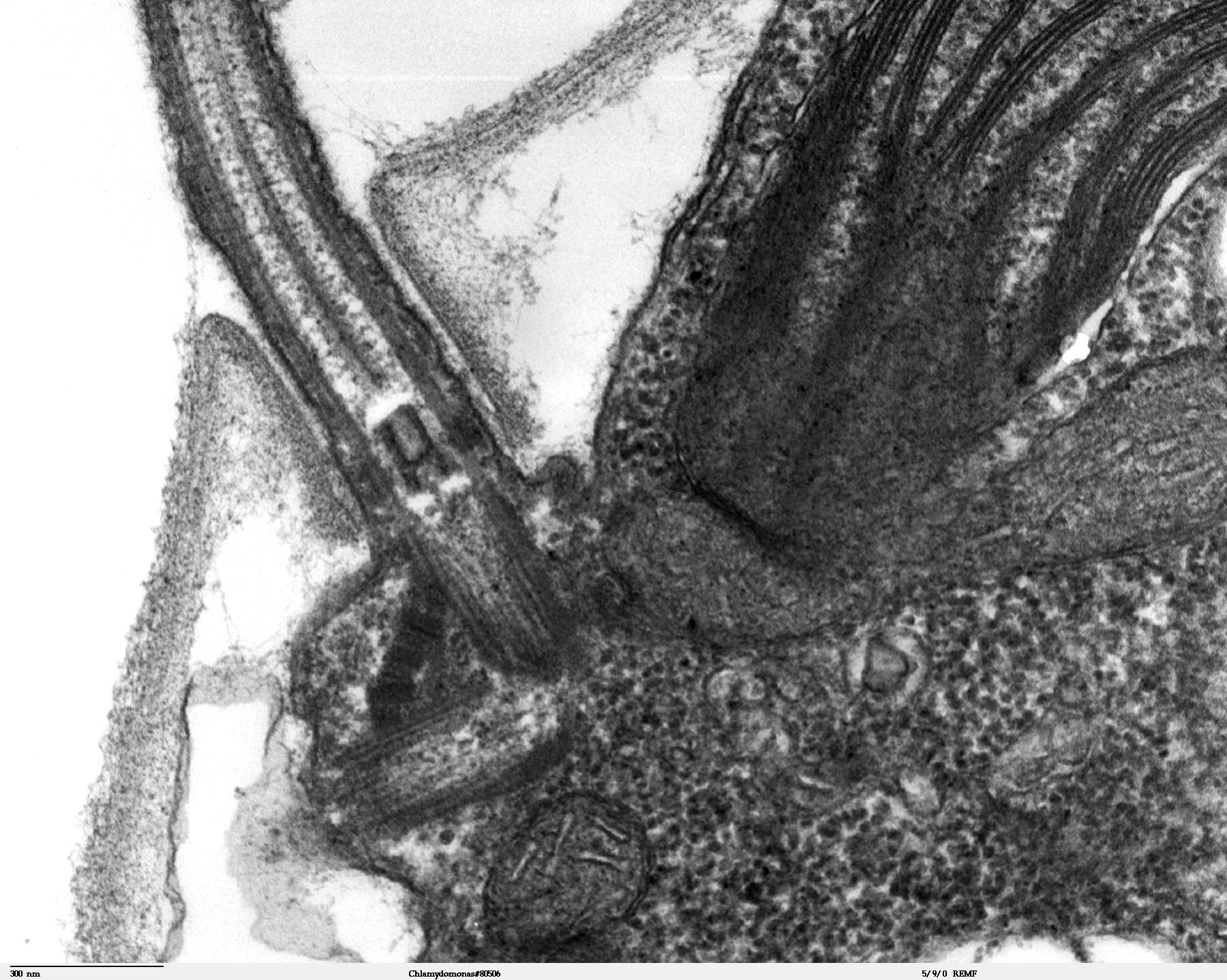 Transmission electron microscope image, showing an example of green algae (Chlorophyta). Chlamydomanas reinhardtii is a unicellular flagellate used as a model system in molecular genetics work and flagellar motility studies. This image is a longitudinal section through a portion of the flagellar apparatus. In the cell apex are the basal body regions that are the anchoring sites for the flagella. This image shows that the two flagella form a V and they are connected at their bases by a transversely striated fibre. This connection is thought to play a part in the coordination of flagellar movement. Also visible is the transition region, with its fibers of the stellate structure. JEOL 100CX TEM